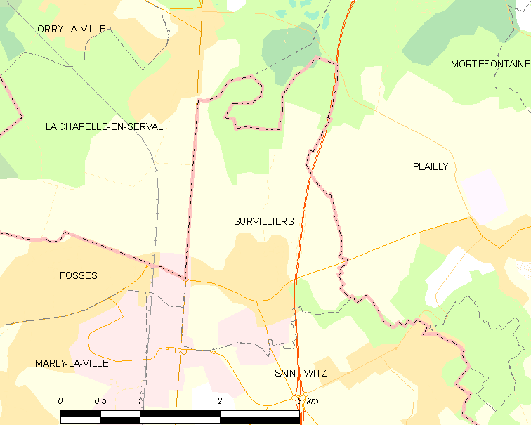 Map of French municipality Survilliers